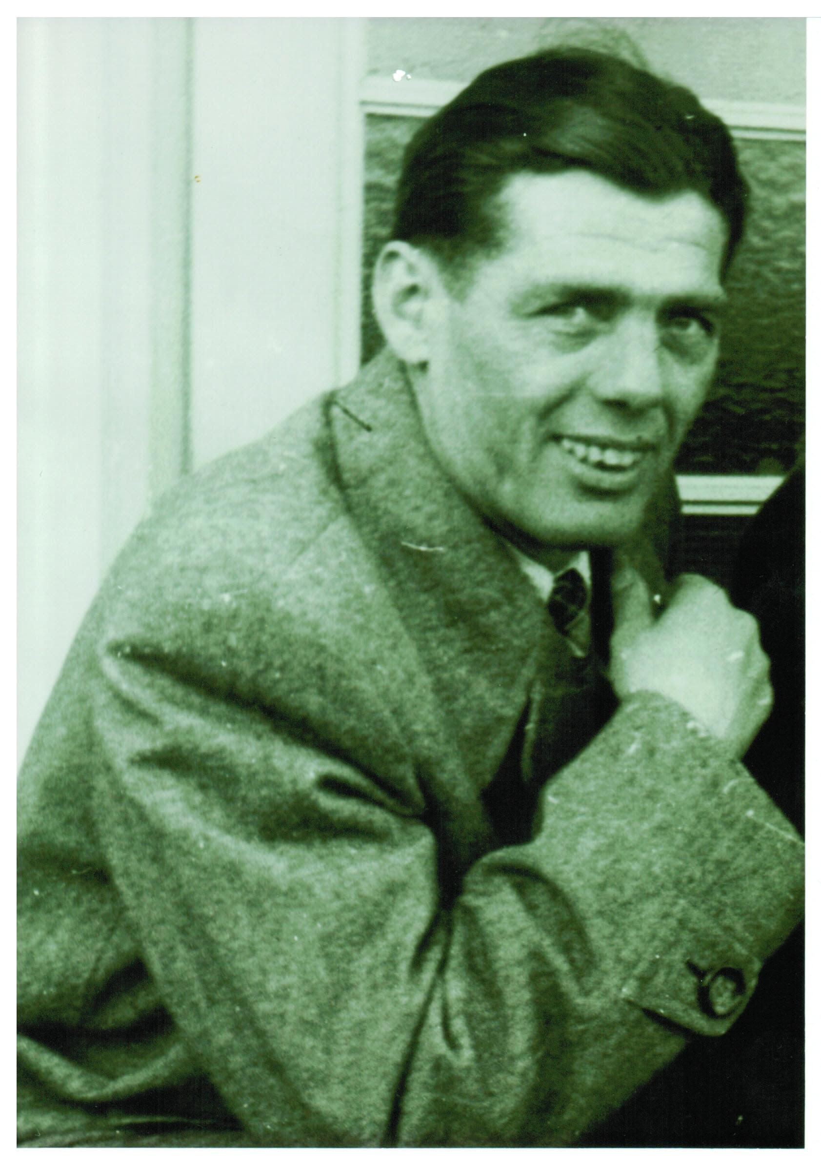 Kicker Karl Striebinger